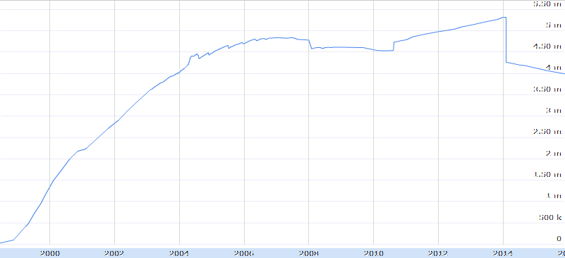 Data collected from various sources, image created for the purpose of using it in wikipedia, not used anywhere else before, so no copyright issues. Details of data origin see [1]. To get write access to that file contact Windharp via the german wikipedia.